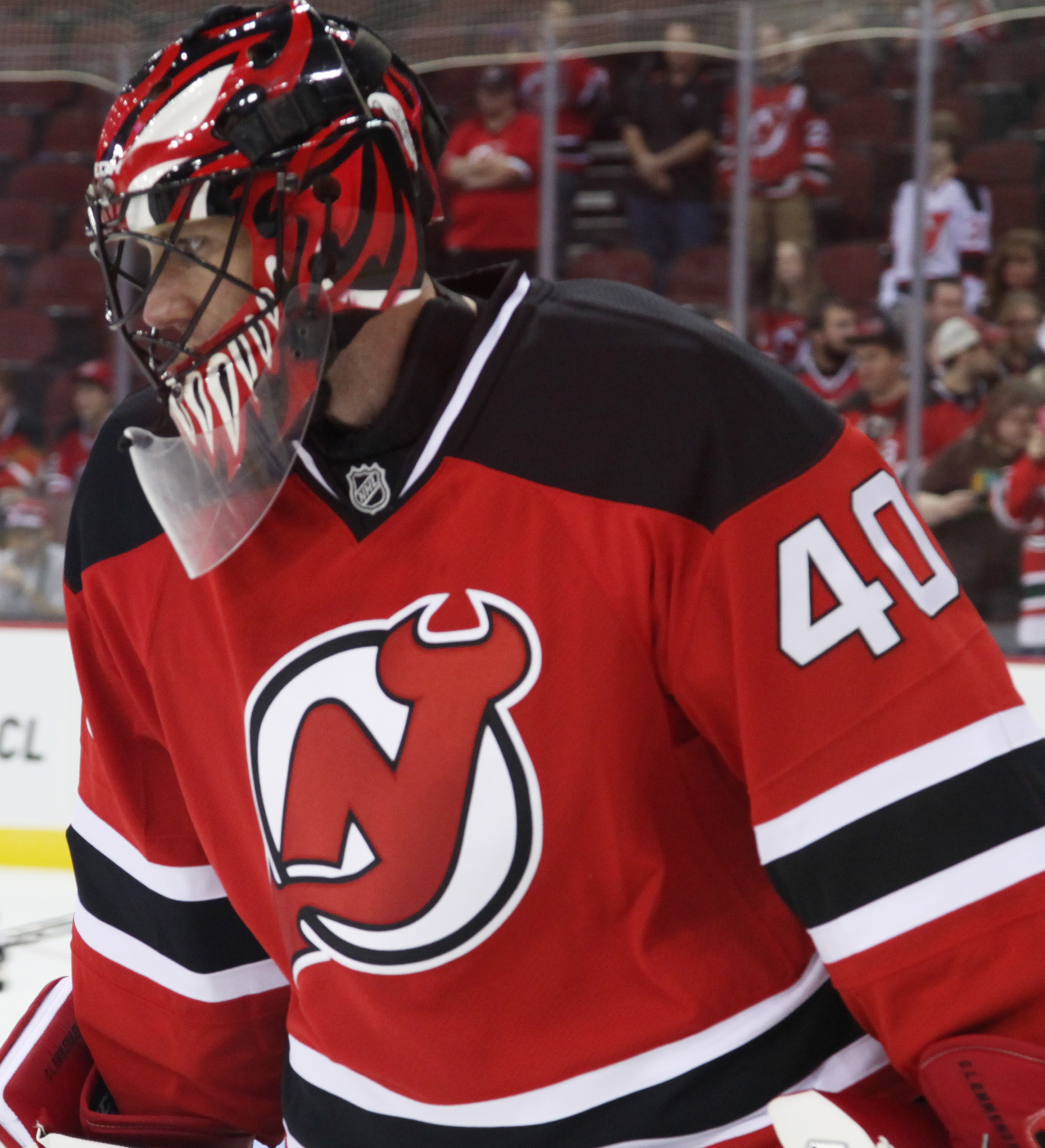 IMG_3844 Scott Clemmensen in September 2014 during a pre-season match.